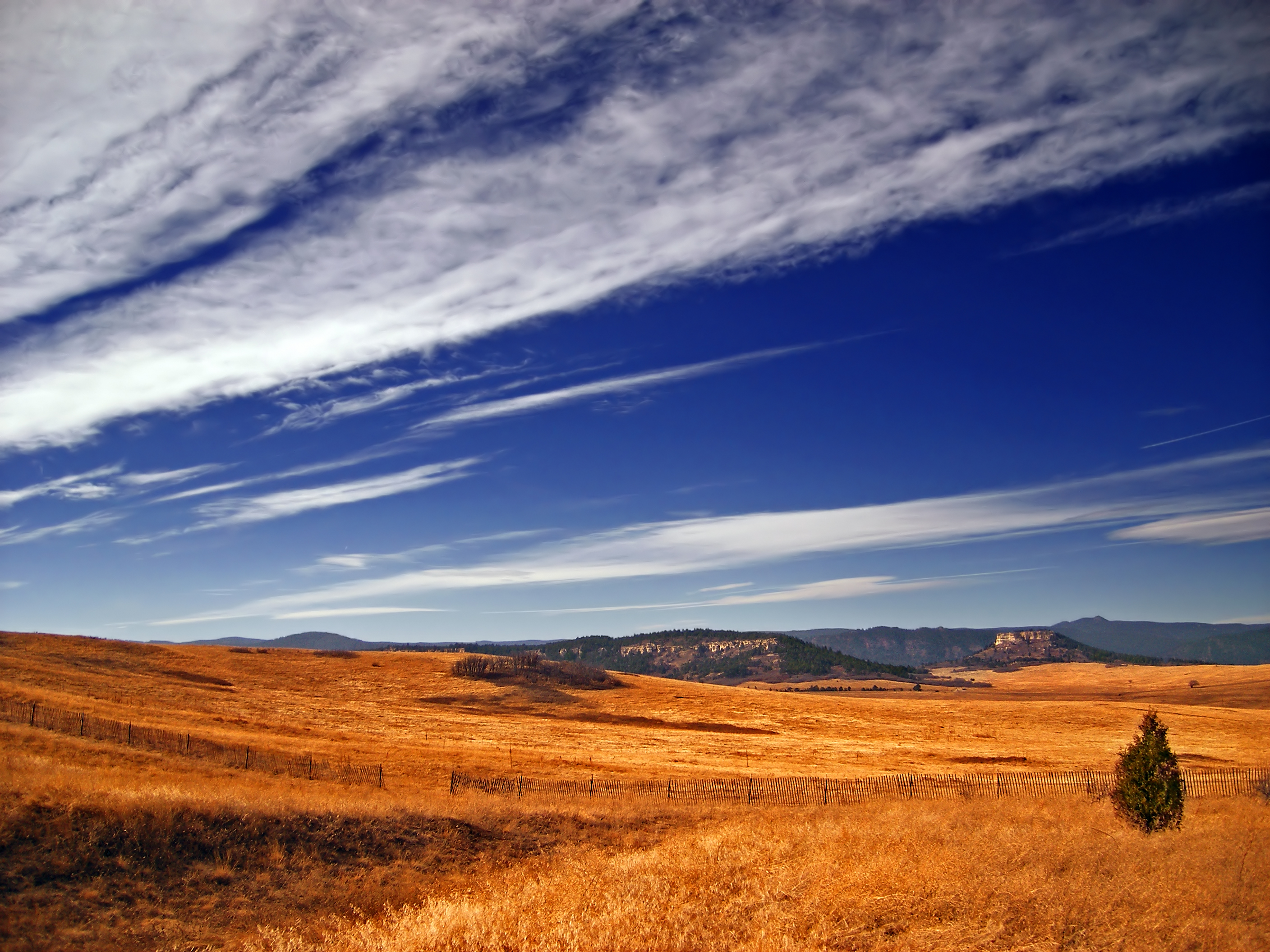 Short-grass prairie along the front range of the Rockies, south-central Colorado, as seen from Interstate 25.